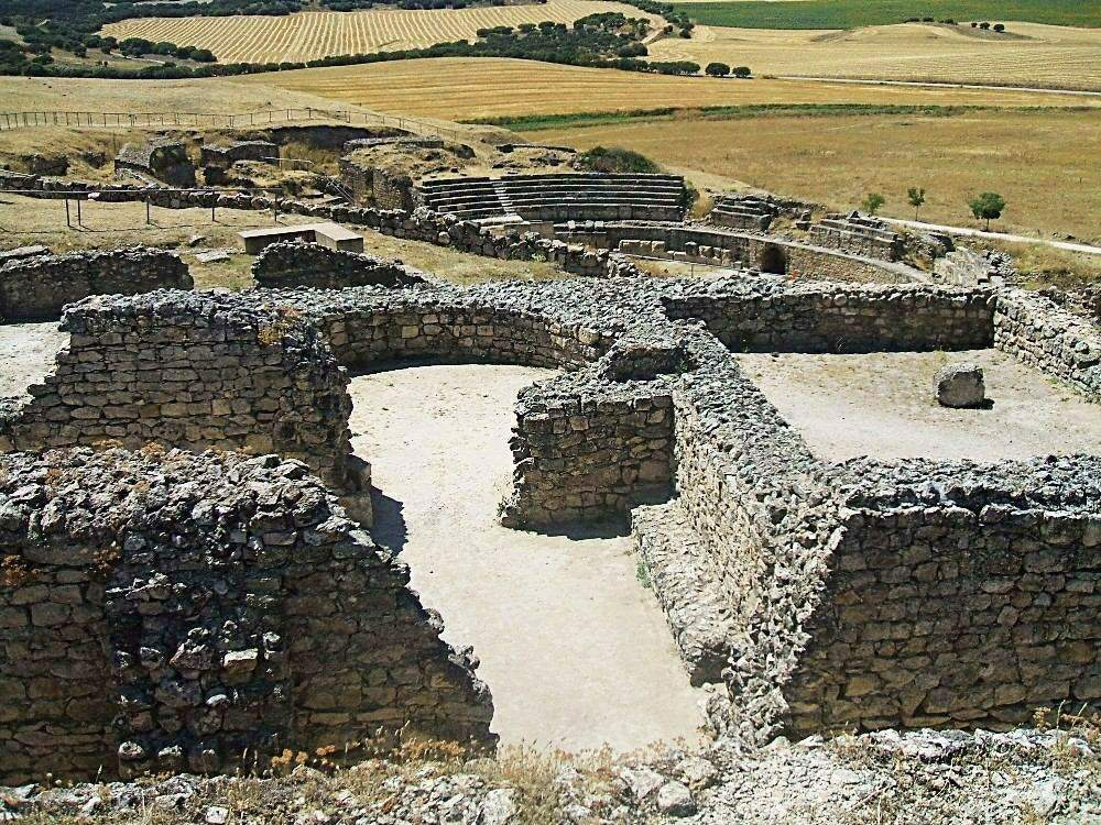 Restos de la antigua ciudad romana de Segóbriga, en Saelices (Cuenca)